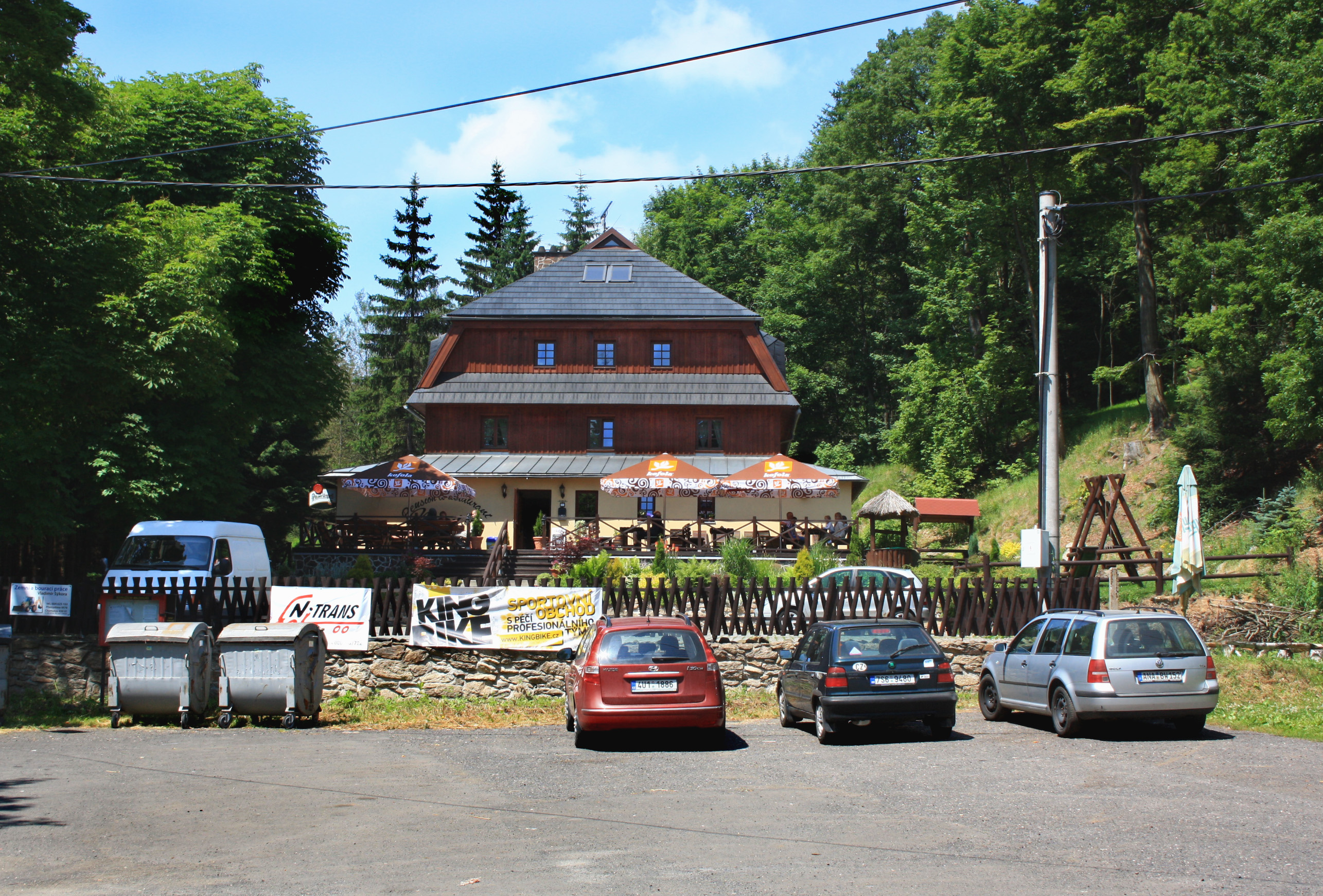 Hotel at Mezihoří village, part of Blatno, Czech Republic